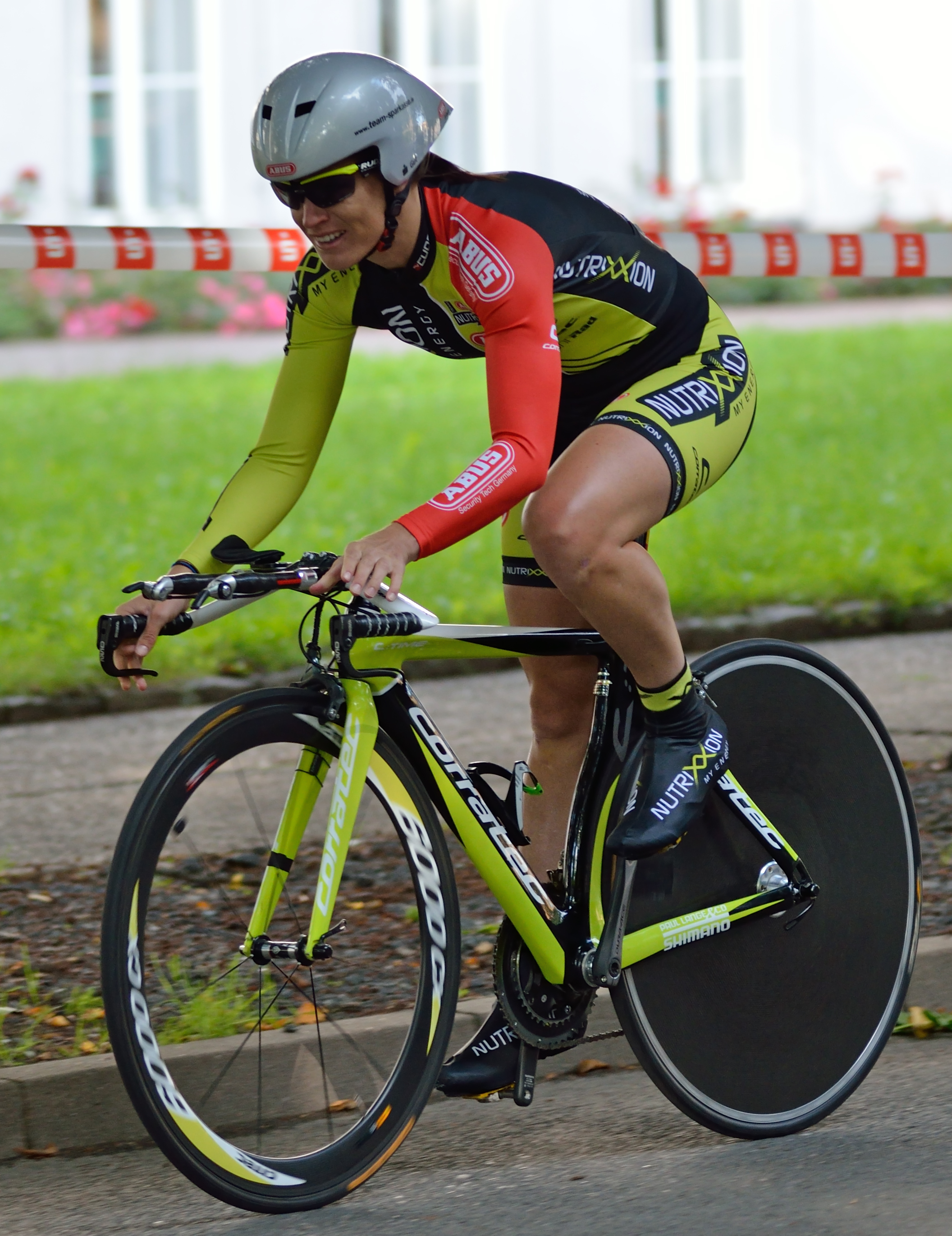 Emma Mackie from the Abus Nutrixxion team during the Women's Tour of Thuringia 2012 in Zwickau, Germany.